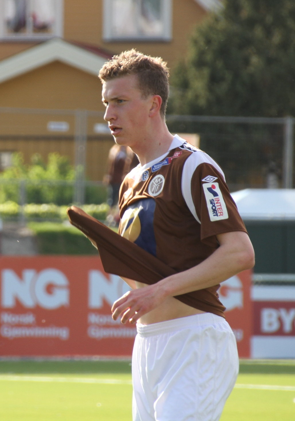 Mjøndalen (Norway) player in match against IK Start. May 20, 2012.